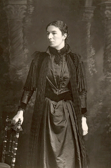 Mrs Humphry Ward (Mary Augusta Ward) (1851 - 1920). Novelist and Social Worker.